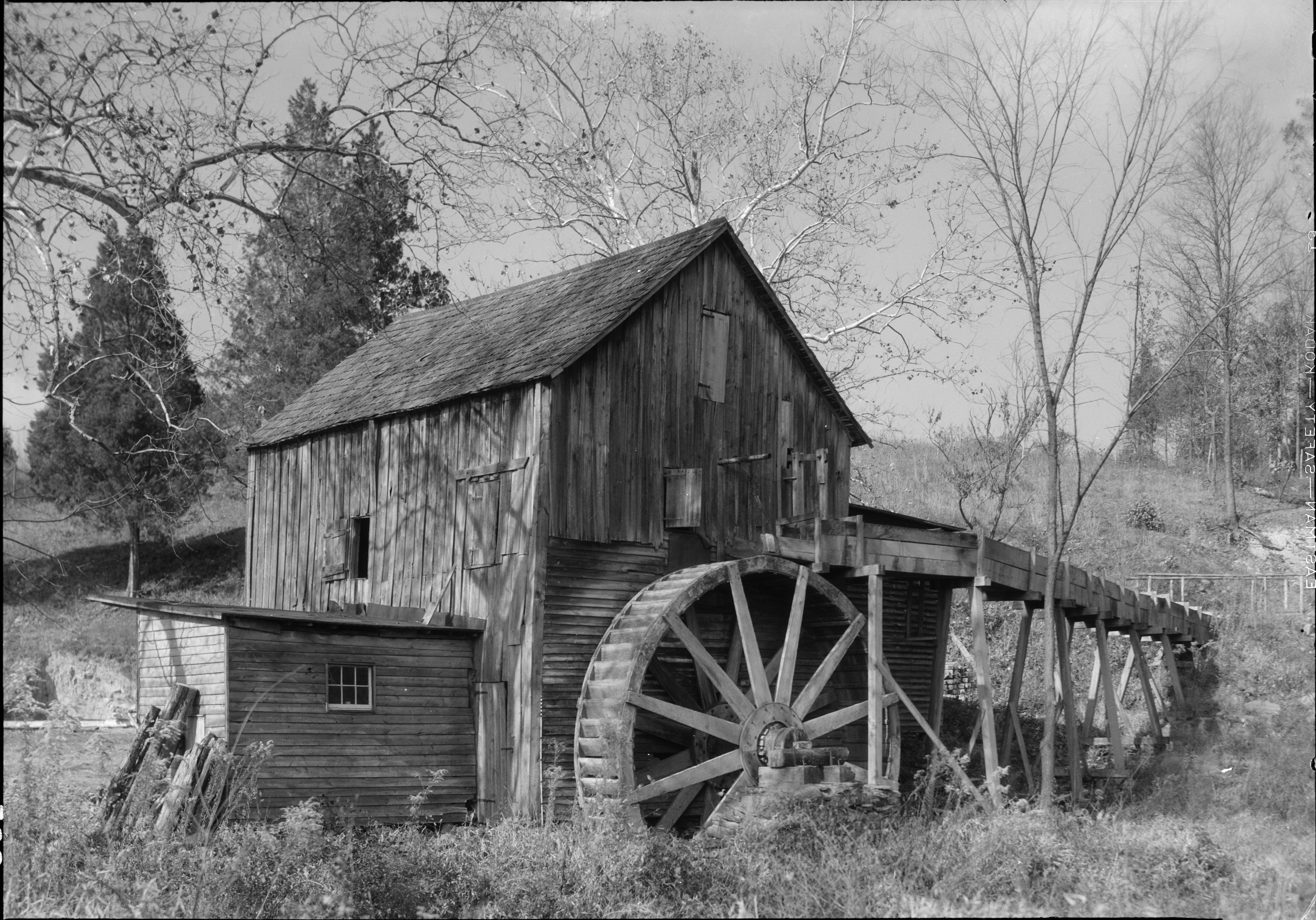 Title: Piney Branch Water Mill, 1212 Pope's Head Road, Fairfax vicinity, Fairfax, VA This file comes from the Historic American Buildings Survey (HABS), Historic American Engineering Record (HAER) or Historic American Landscapes Survey (HALS). These are programs of the National Park Service established for the purpose of documenting historic places. Records consist of measured drawings, archival photographs, and written reports. This tag does not indicate the copyright status of the attached work. A normal copyright tag is still required. See Commons:Licensing for more information. This work is in the public domain in the United States because it is a work prepared by an officer or employee of the United States Government as part of that person’s official duties under the terms of Title 17, Chapter 1, Section 105 of the US Code. See Copyright. Note: This only applies to original works of the Federal Government and not to the work of any individual U.S. state, territory, commonwealth, county, municipality, or any other subdivision. This template also does not apply to postage stamp designs published by the United States Postal Service since 1978. (See § 313.6(C)(1) of Compendium of U.S. Copyright Office Practices). It also does not apply to certain US coins; see The US Mint Terms of Use. This file has been identified as being free of known restrictions under copyright law, including all related and neighboring rights. Other Title: Robey's Mill Hope Park Mill Creator(s): Historic American Buildings Survey, creator Medium: Measured Drawing(s): 5(18 x 24 in.) Photo(s): 3 (5 x 7 in.) Part of: Historic American Buildings Survey (Library of Congress) Reproduction Number: [See Call Number] Call Number: HABS VA,30-FAIRF,1- Repository: Library of Congress, Prints and Photographss Division, Washington, D.C. 20540 USA